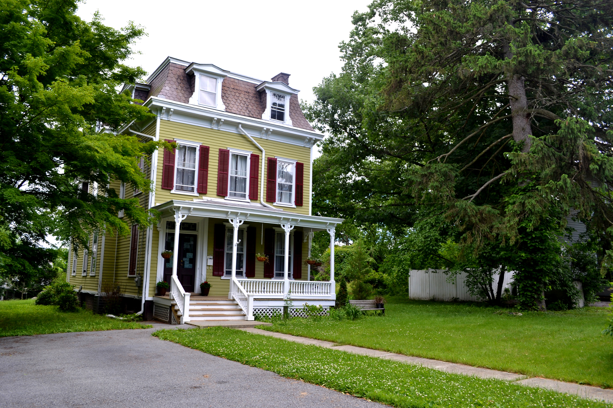 Gregory House Gregory House 140 S Cherry St Poughkeepsie NY. Western (front) facade